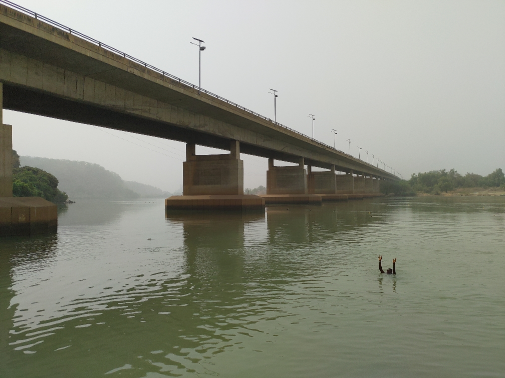 Bridge at Jebba crossing the Niger River This is an image with the theme "Africa on the Move or Transport" from: Nigeria